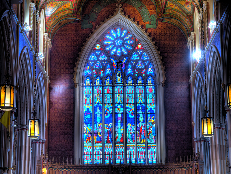 The interior of St. Michael's Cathedral, Toronto.St Michaels Cathedral